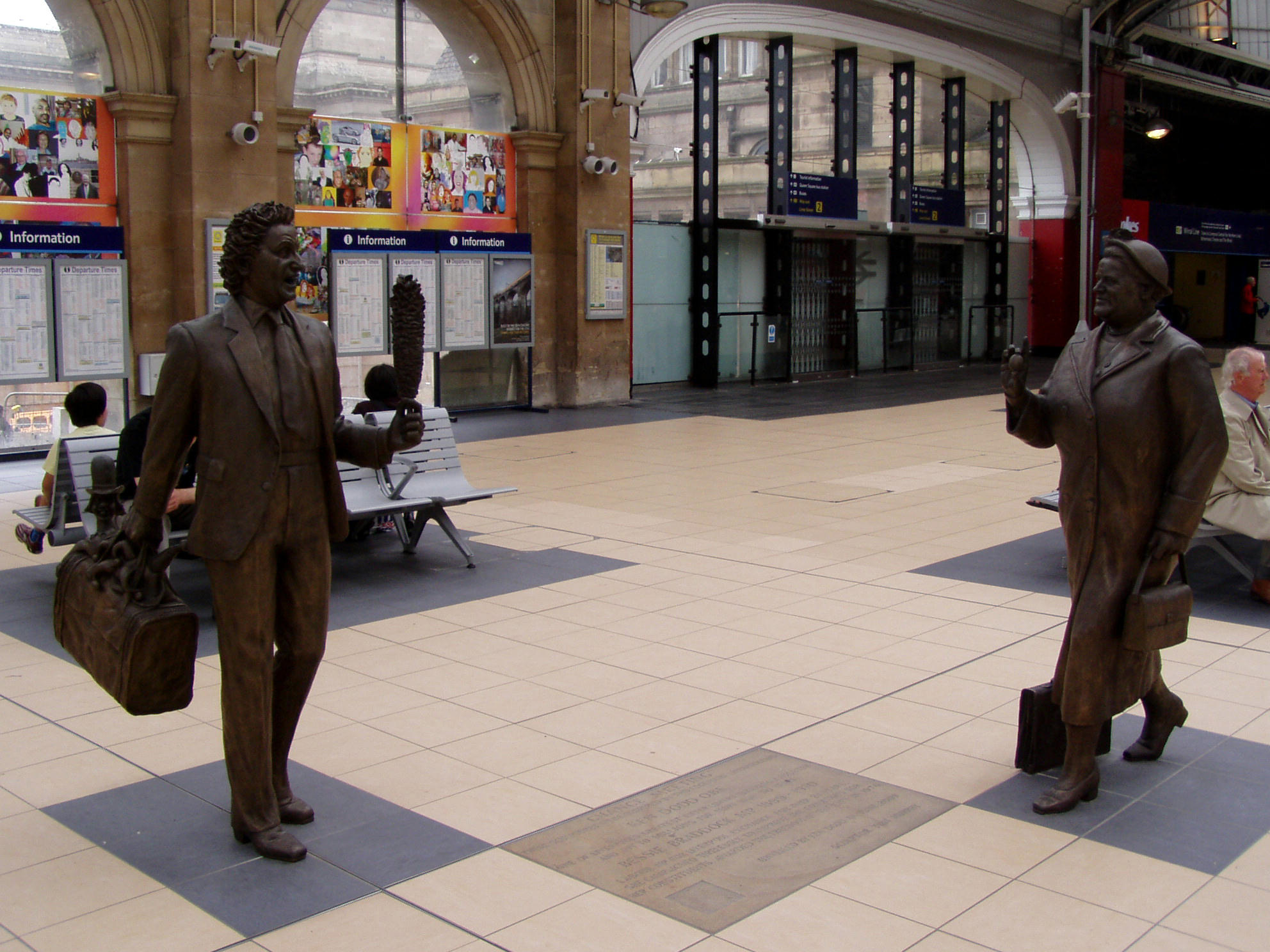 Chance meeting sculpture Statues of Ken Dodd and Bessy Bradock at Liverpool Lime Street Railway station.